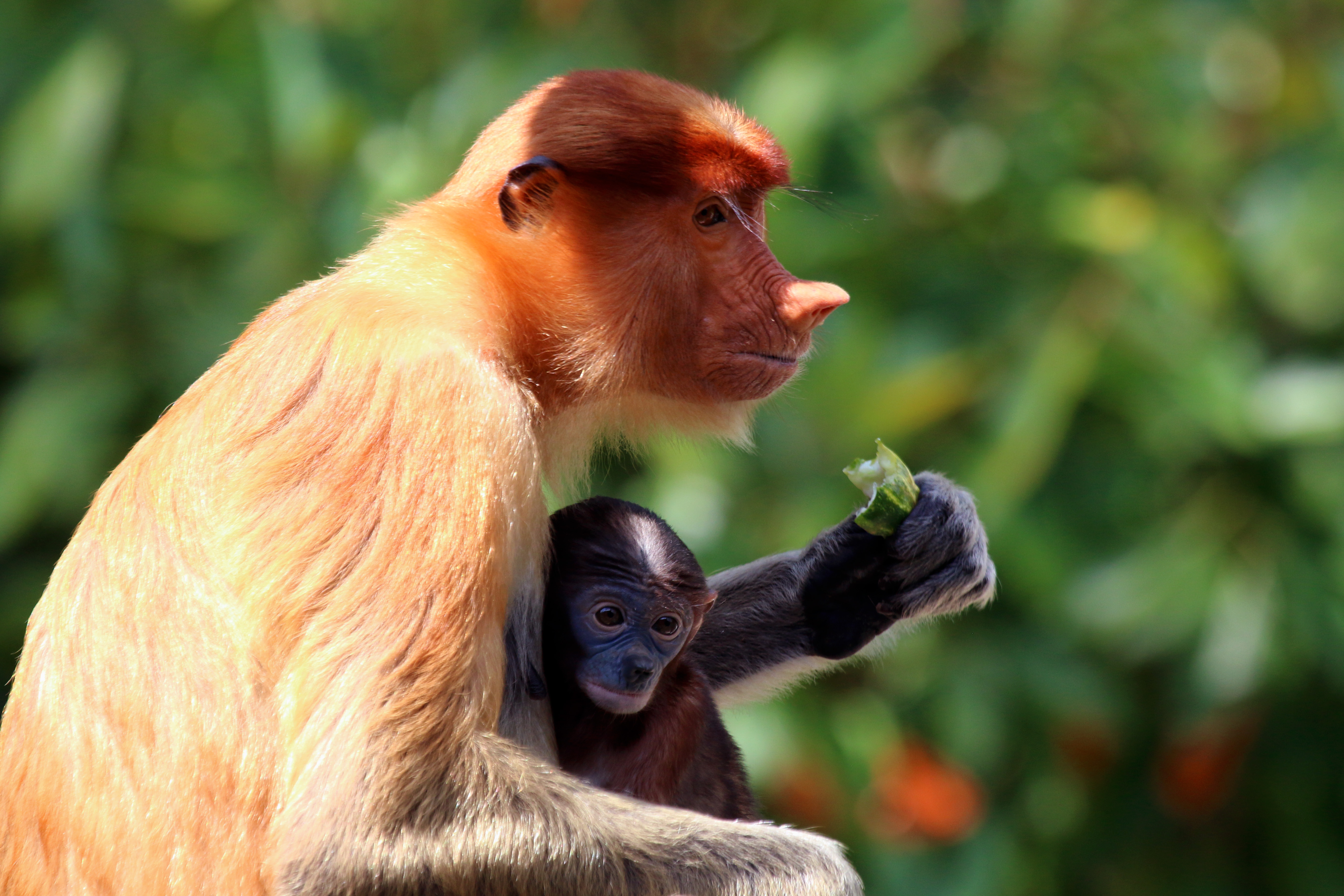 Proboscis monkey (Nasalis larvatus) female and baby Labuk Bay, Borneo